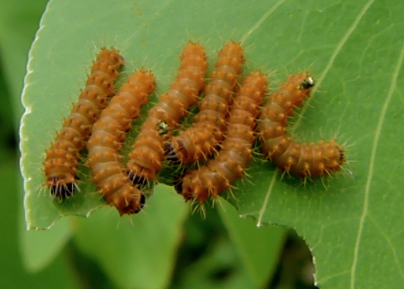 S62 East of Letaba, Kruger NP, SOUTH AFRICA